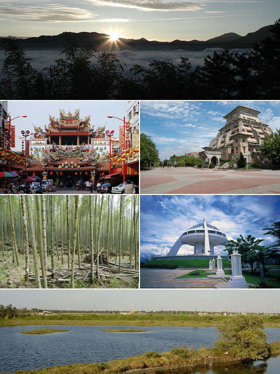 Montage of various Chiayi County images.